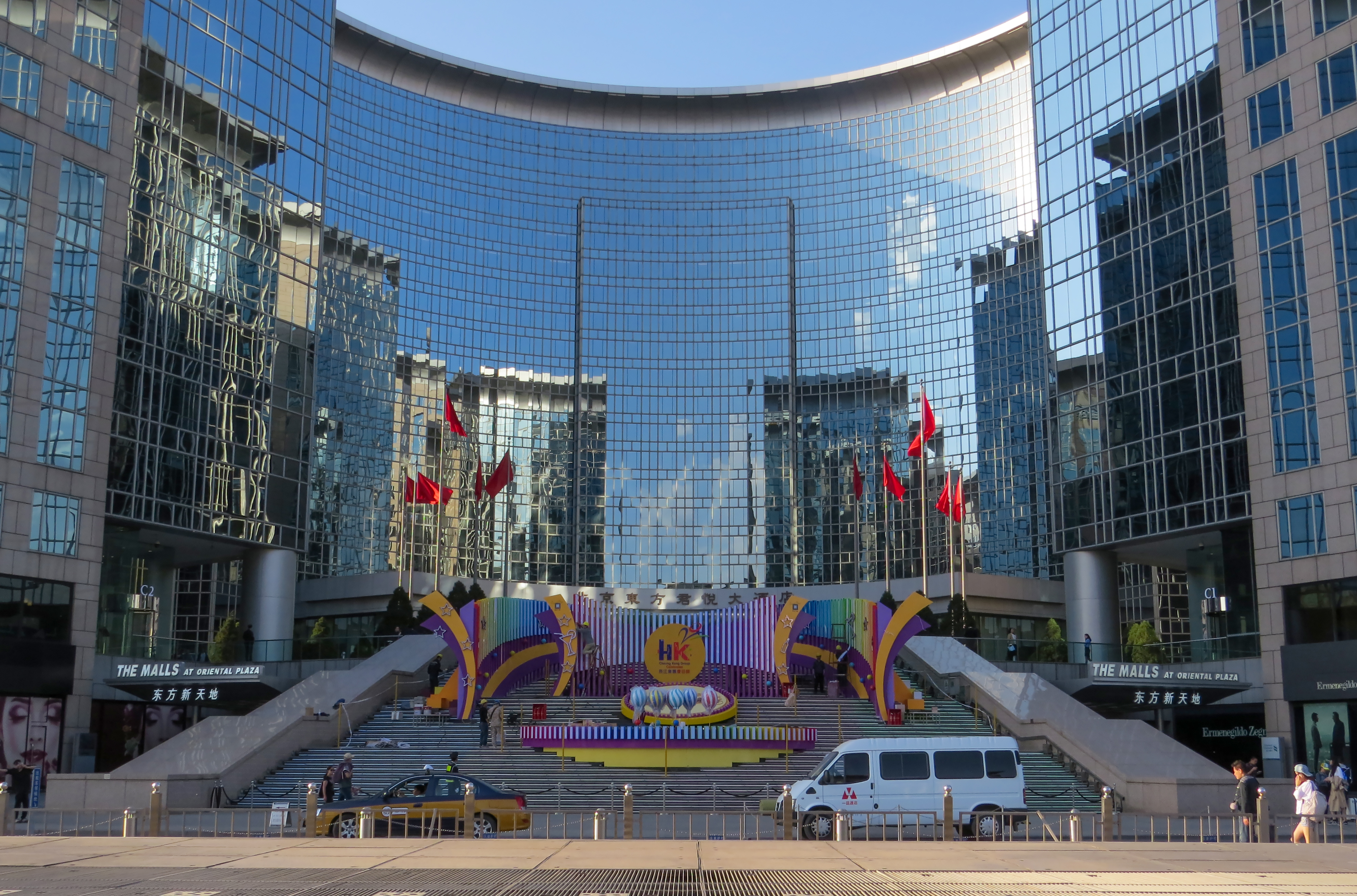 With HK20 decals. Failed to catch that 682 again.